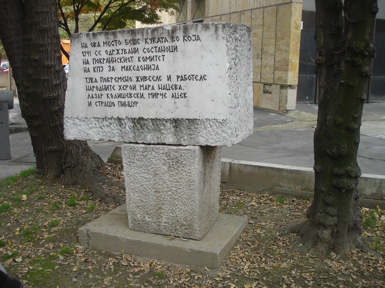 Monument of the spot of the house where Communist Party held meetings and where occasionally lived national heroes from WWII in Skopje